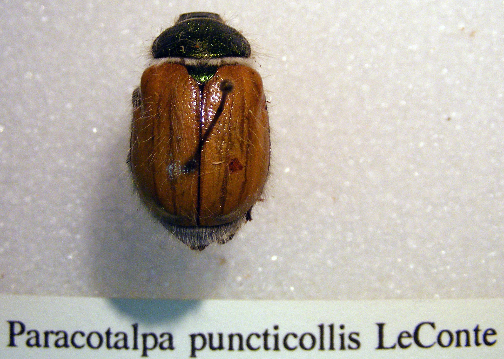 Paracotalpa puncticollis adult from the Texas A&M University Insect Collection